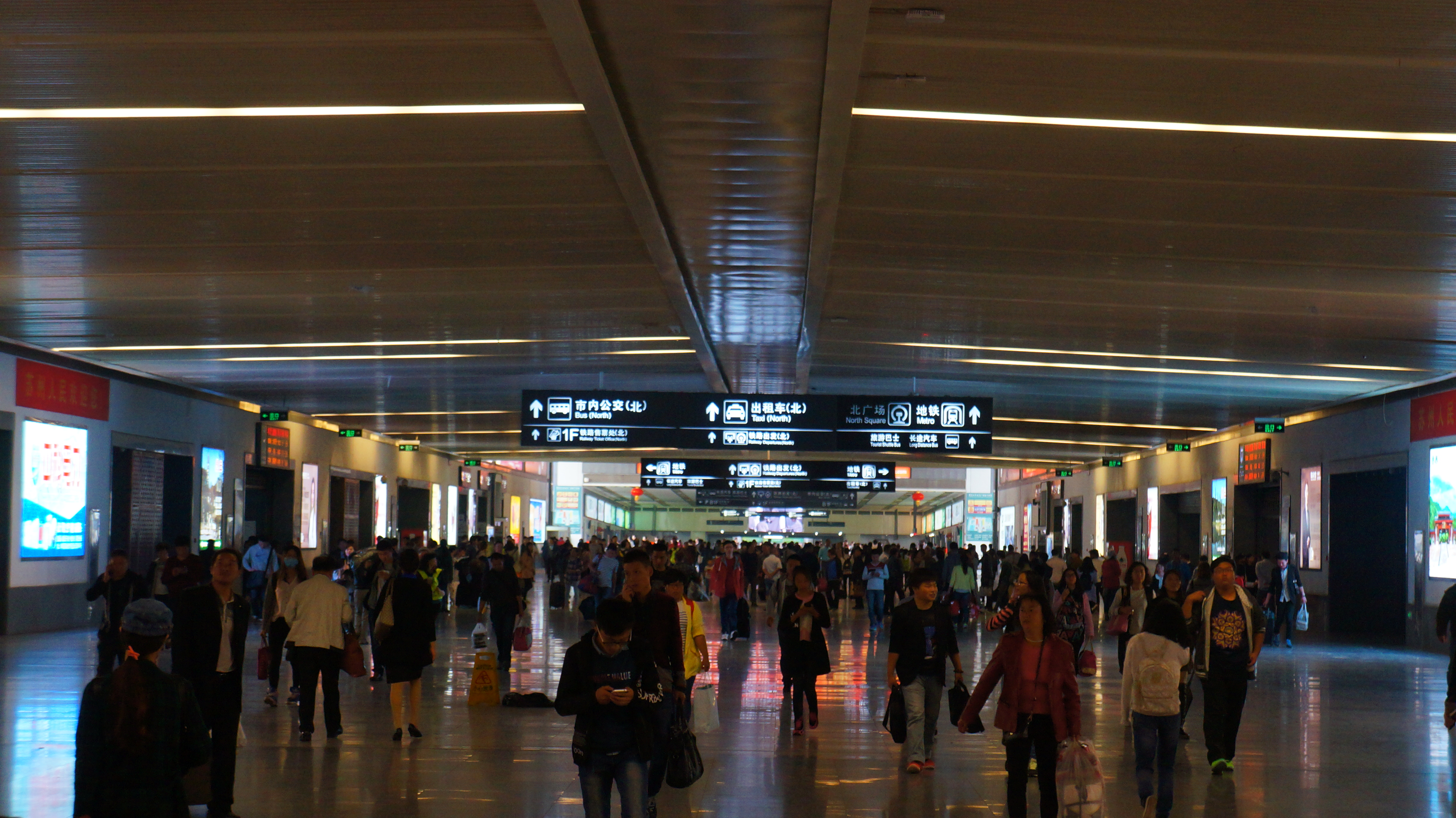 Arrival hall of Suzhou Railway Station